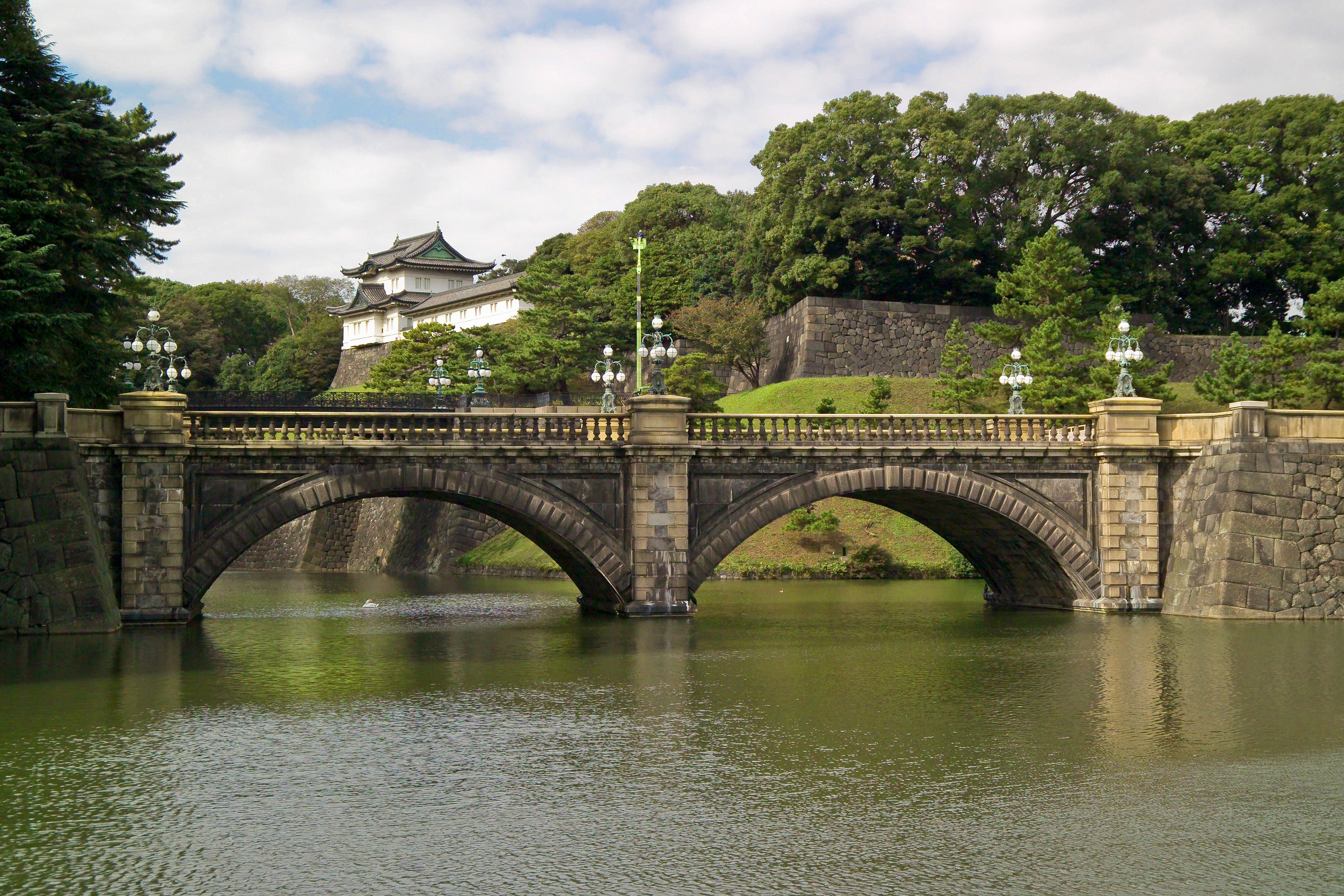 This photo shows Seimon-Ishibashi. Behind this bridge is Niju-bashi, which is not visible to normal visitors. I took the photo and contribute my rights in the file to the public domain; individuals and organizations retain rights to images in the file.